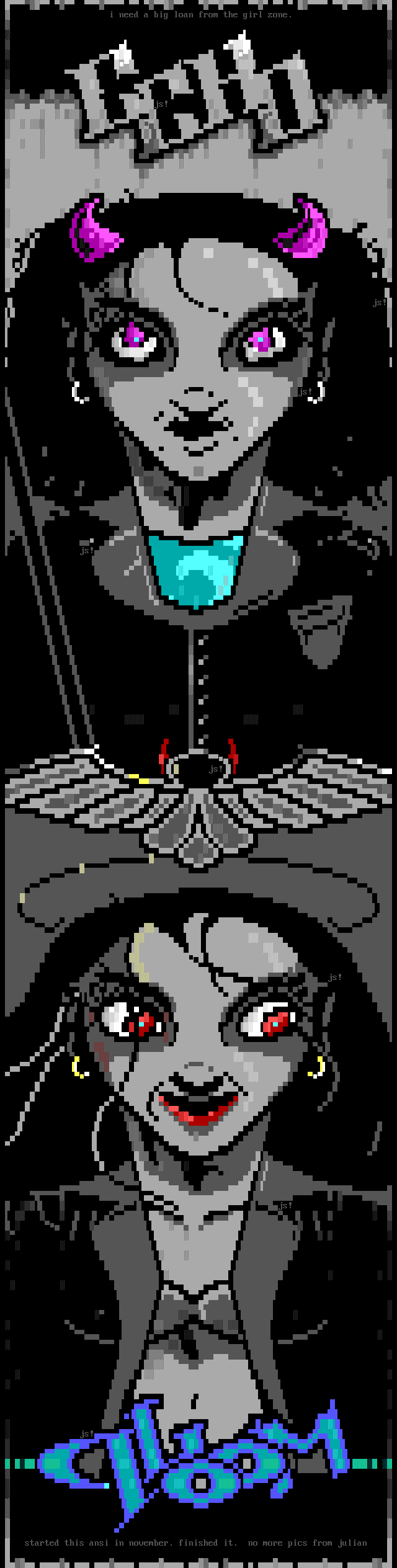 Long form ASCI artwork